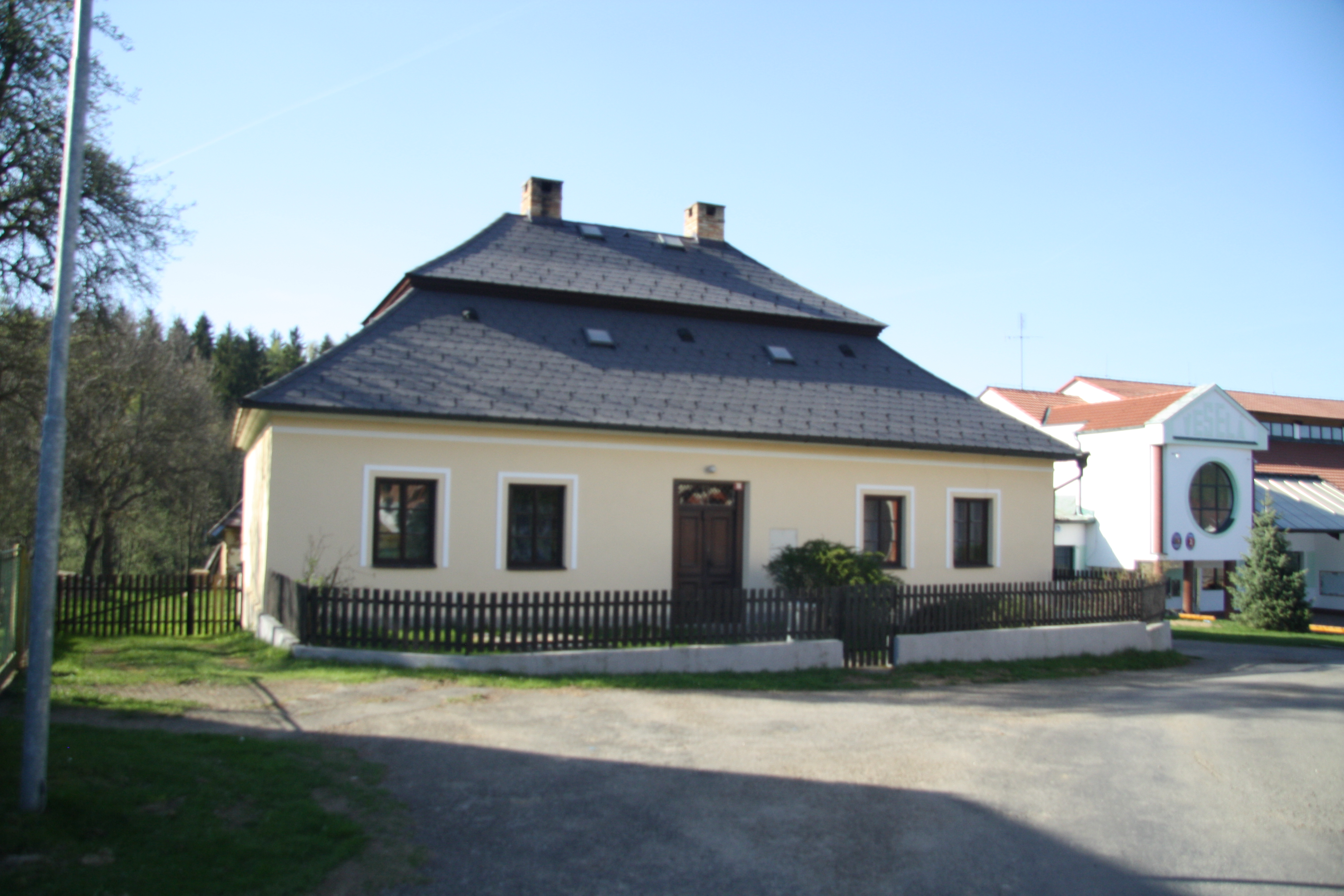 Rectory in Veselá, Pelhřimov District